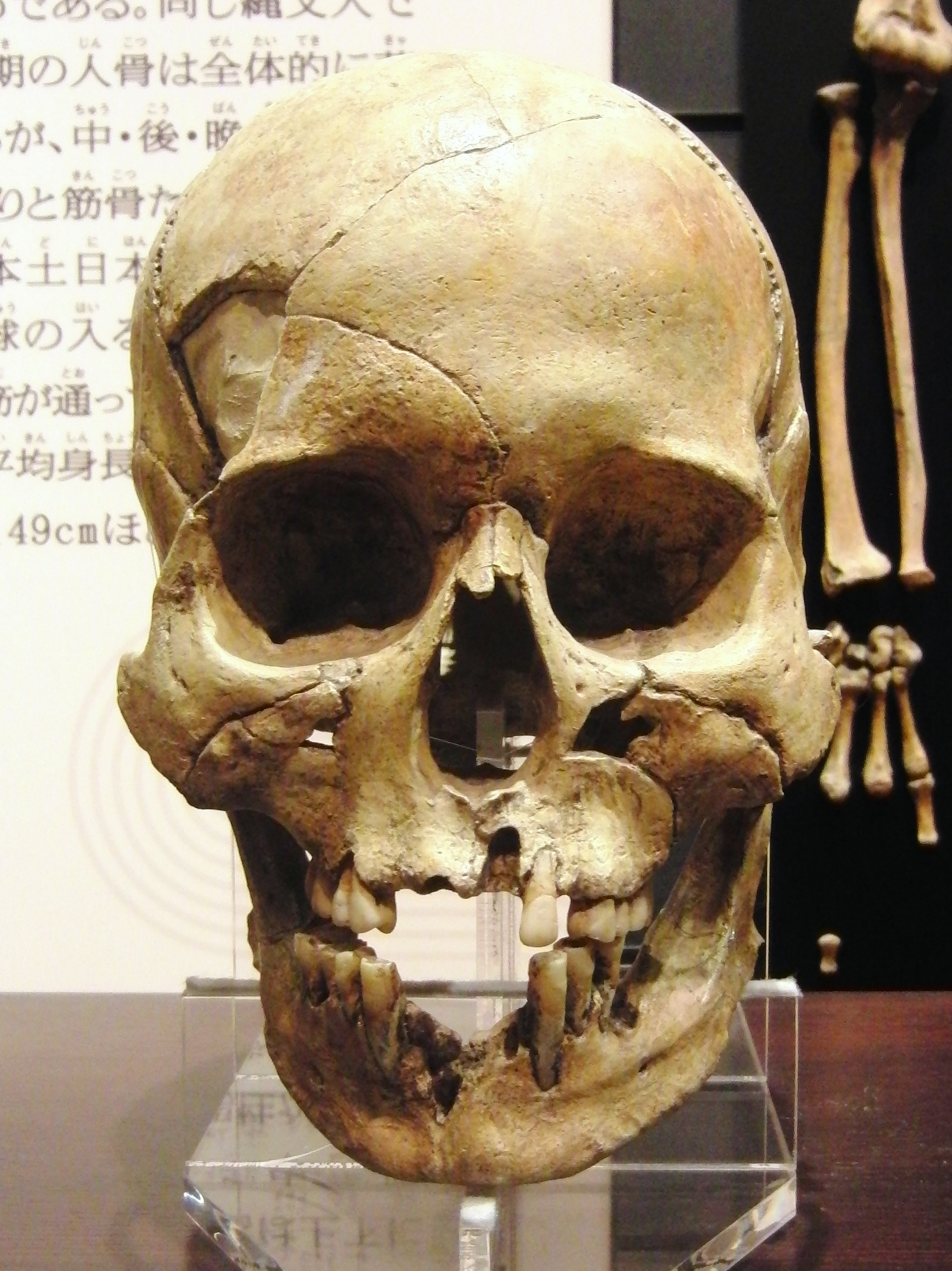 Skull of Jomon people (woman) from Ebishima midden, Iwate Prefecture, Japan. Replica. Exhibit in the National Museum of Nature and Science, Tokyo, Japan.